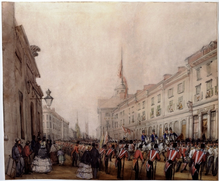 Painting, Funeral of General d'Urban, James Duncan (1806-1881), 1849, Watercolour, gouache and graphite on paper, 43.7 x 53.6 cm